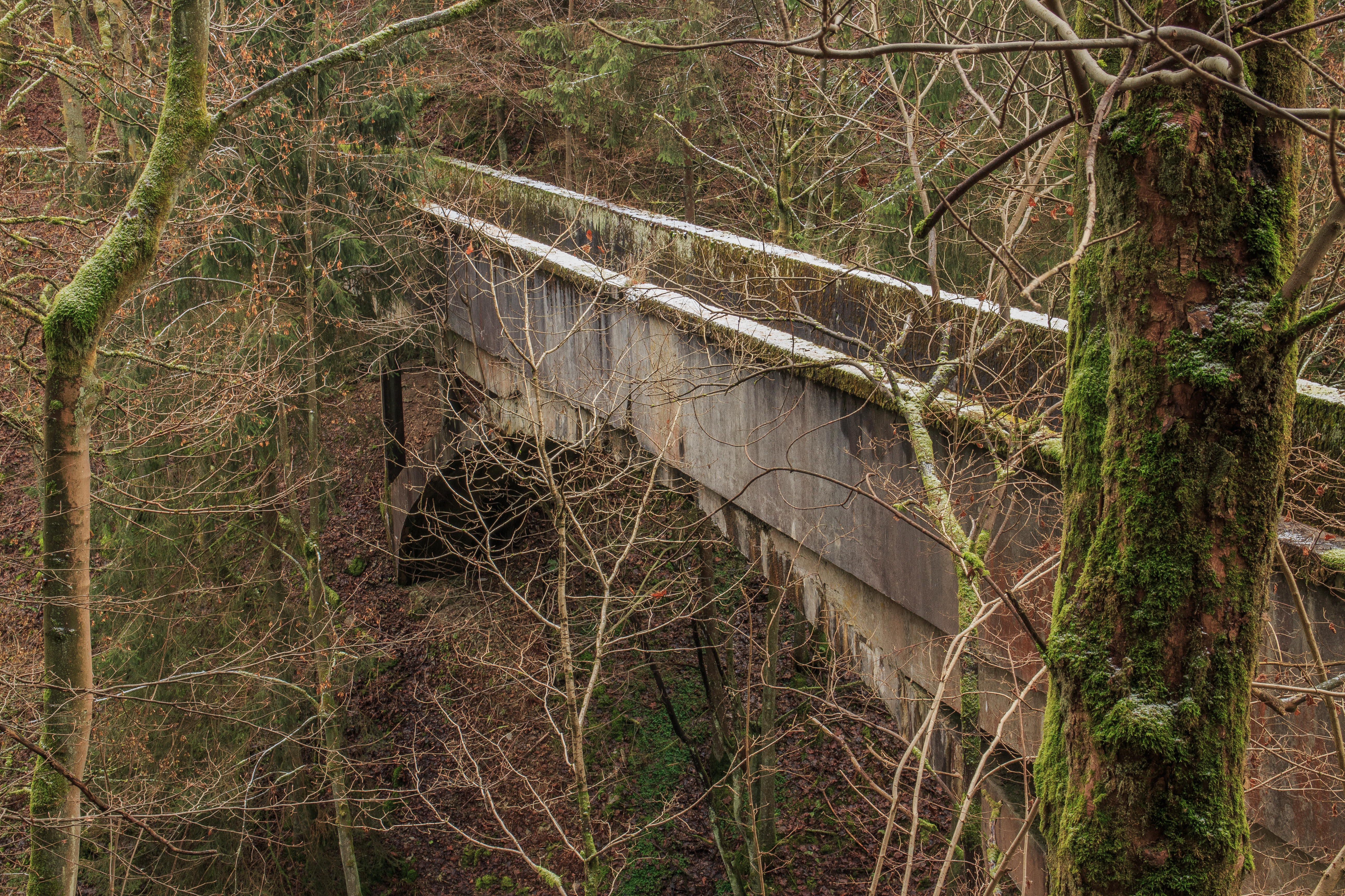 Krenkeltal Rothaarsteig in Sauerland, aqueduct over an old railway line.